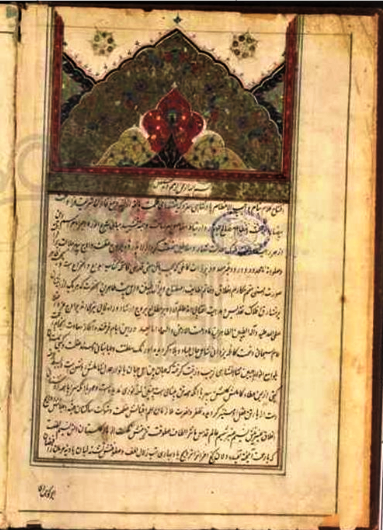 Author: Mohaghegh Sabzevari – Muhammad Baqir al-Sabzevari (1608-1679 / 1017-1090 A.H.) Islamic Consultative Assembly Library, Museum and Documentation Centre. Number: 15520- Published: 1894 AD / 1312 A.H.